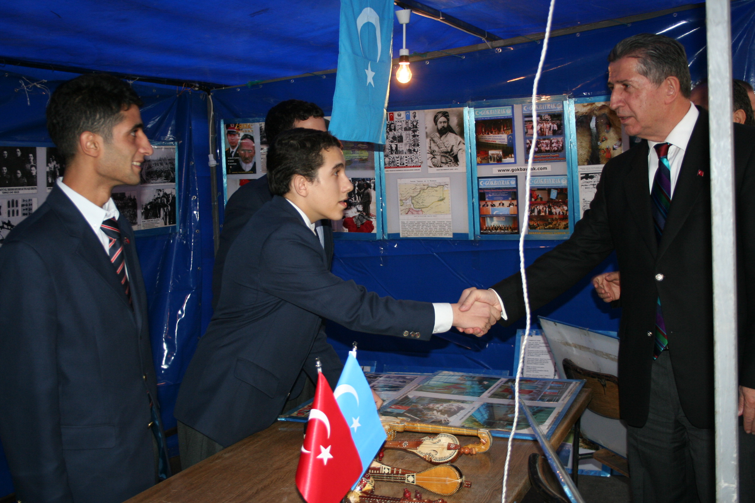 Köksal Toptan, the speaker of the Grand National Assembly of Turkey, shake hands with Turkish students in Rize.